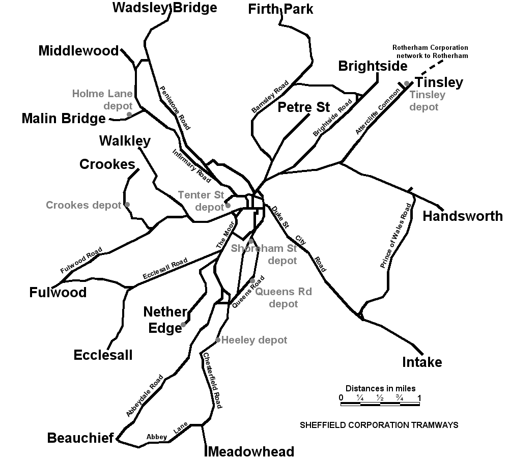 Map of Sheffield's Tramway system at its fullest extent in 1933. The system was in operation between 1873 and 1960, and is not to be mistaken for the modern Sheffield Supertram system.